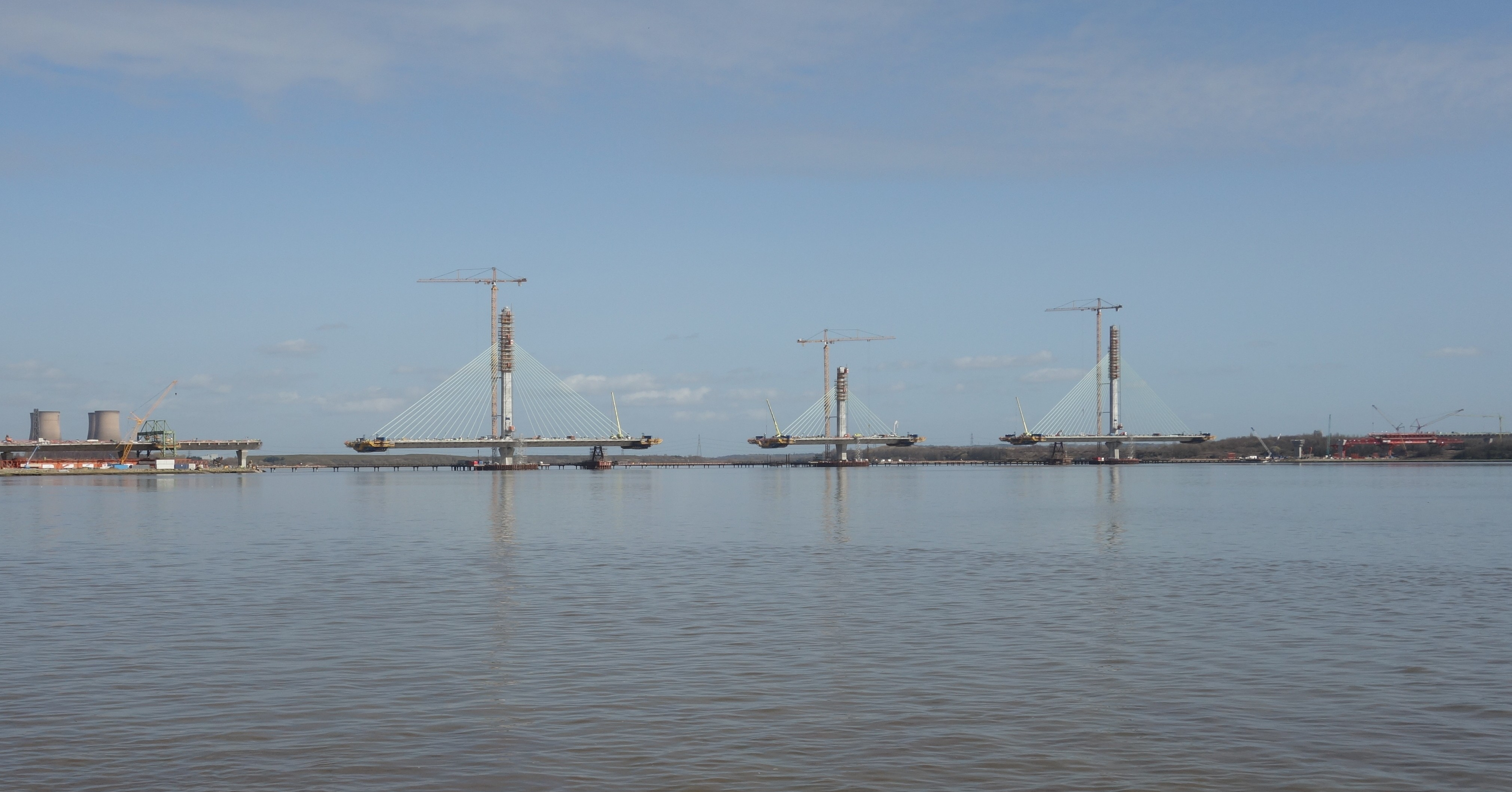 The Mersey Gateway bridge in construction, from the Widnes side, to the west of the bridge.